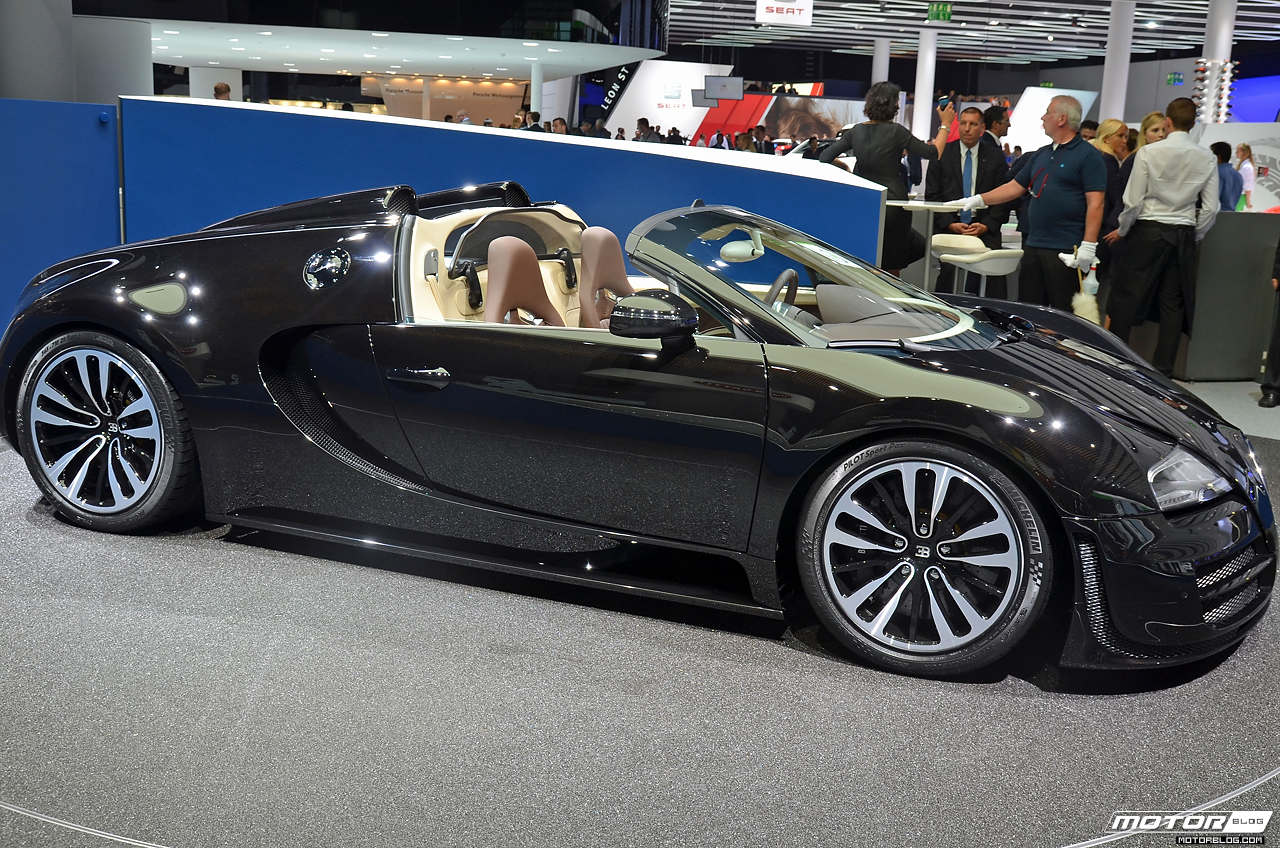 IAA Frankfurt 2013: Bugatti Veyron Grand Sport Vitesse - Jean Bugatti / Photo: Raphael Jahn ______________________ Please feel free to use this image for FREE under the Creative Commons (CC) licence. However, if you use the image, pls set a backlink to and give credit as following: "Image: ". For highres images or any other inquiries pls contact mailto: . Thanks.